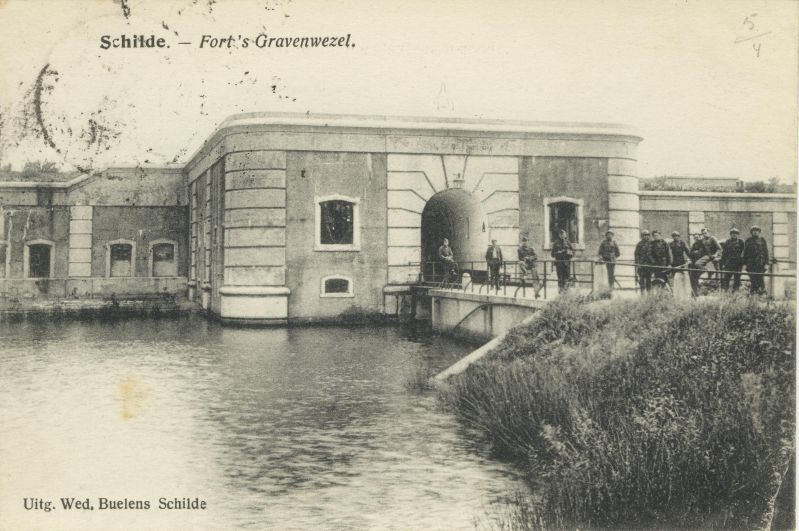 Fort van 's Gravenwezel tijdens WO I